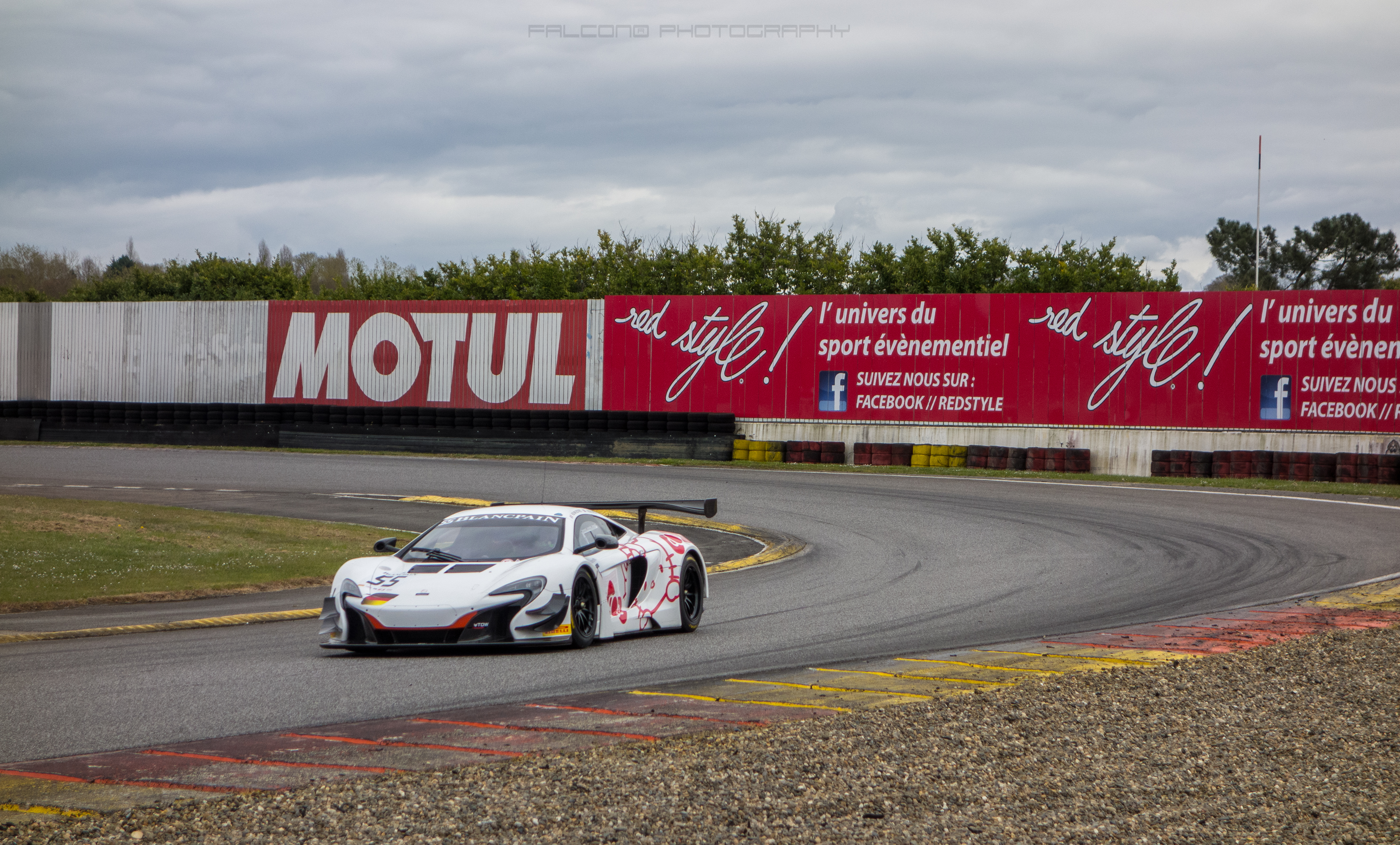 McLaren 650S GT3. 3.8L V8 Twin Turbo McLaren M838T 500 PS & 500 Nm Road-Car Carbon Chassis Length: 4534mm Width: 2040mm Height: 1200mm Weight: 1240 kg